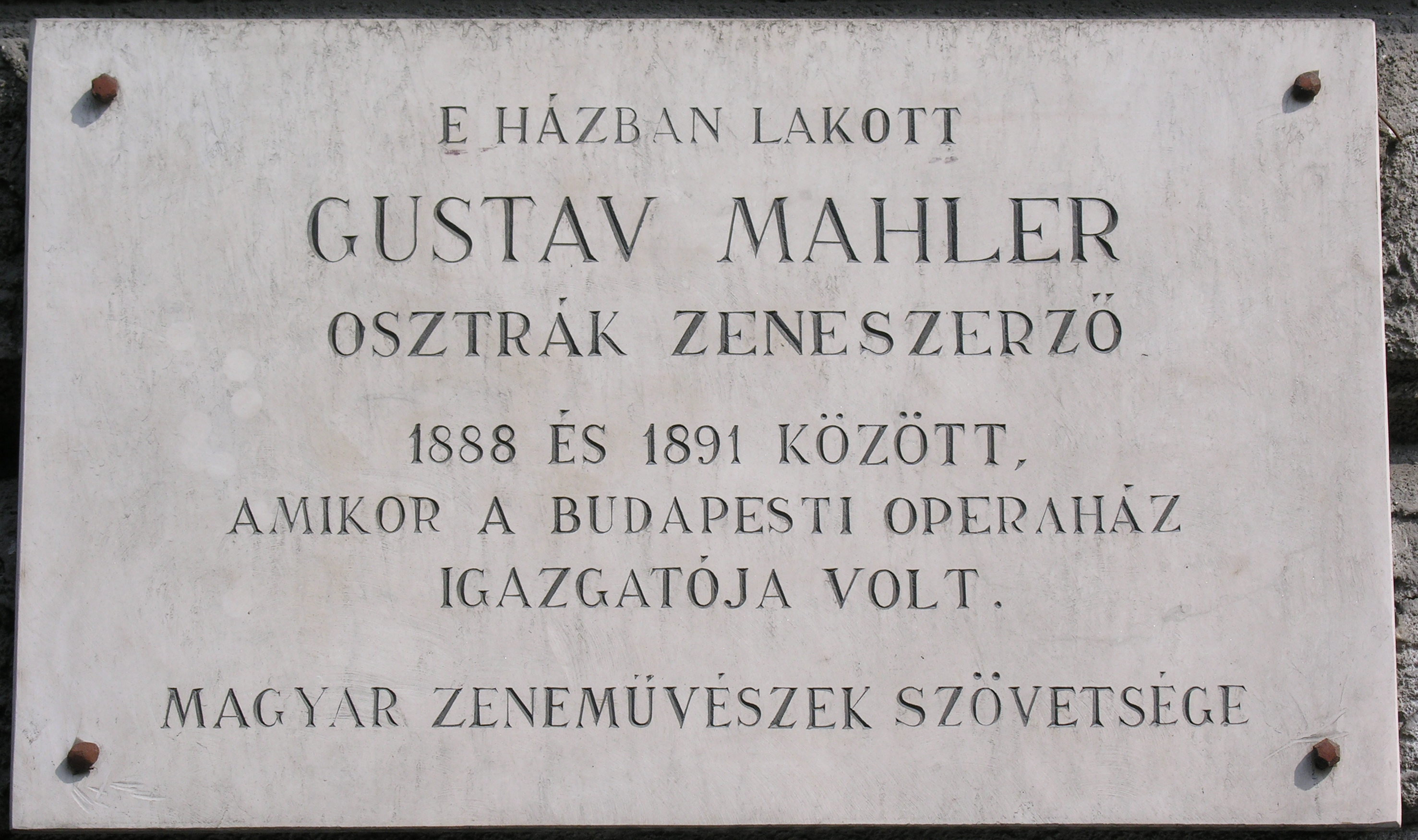 Gustav Mahler commemorative plaque in Budapest District VI, Teréz Boulevard No 7